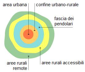 rural area diagram